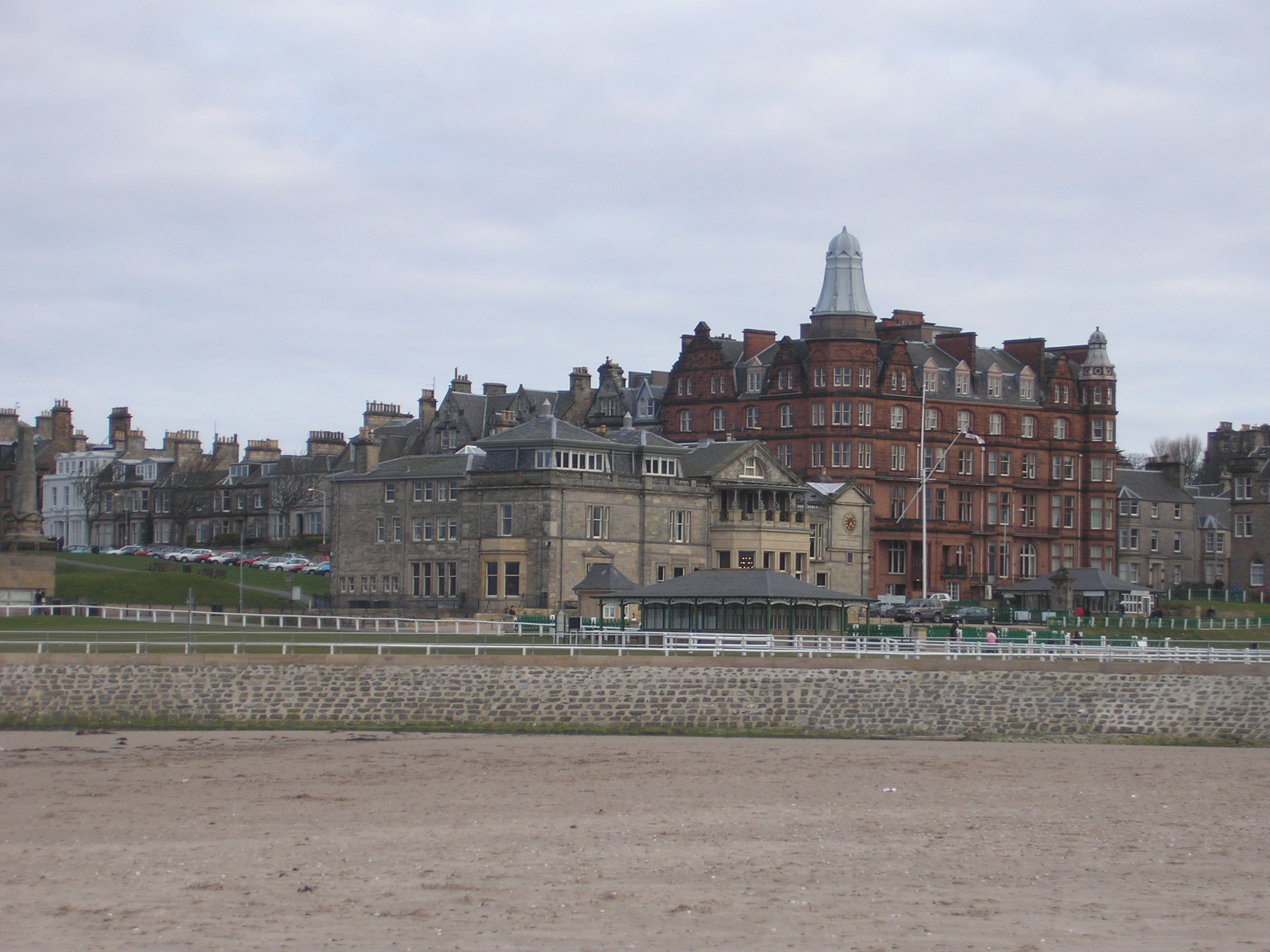 Royal and Ancient Golf Club of St Andrews, Club de Golf de St. Andrews, el club de golf más antiguo del mundo